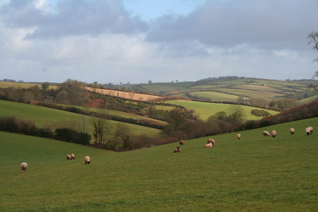 Poughill: towards Cheriton Fitzpaine parish. Looking east